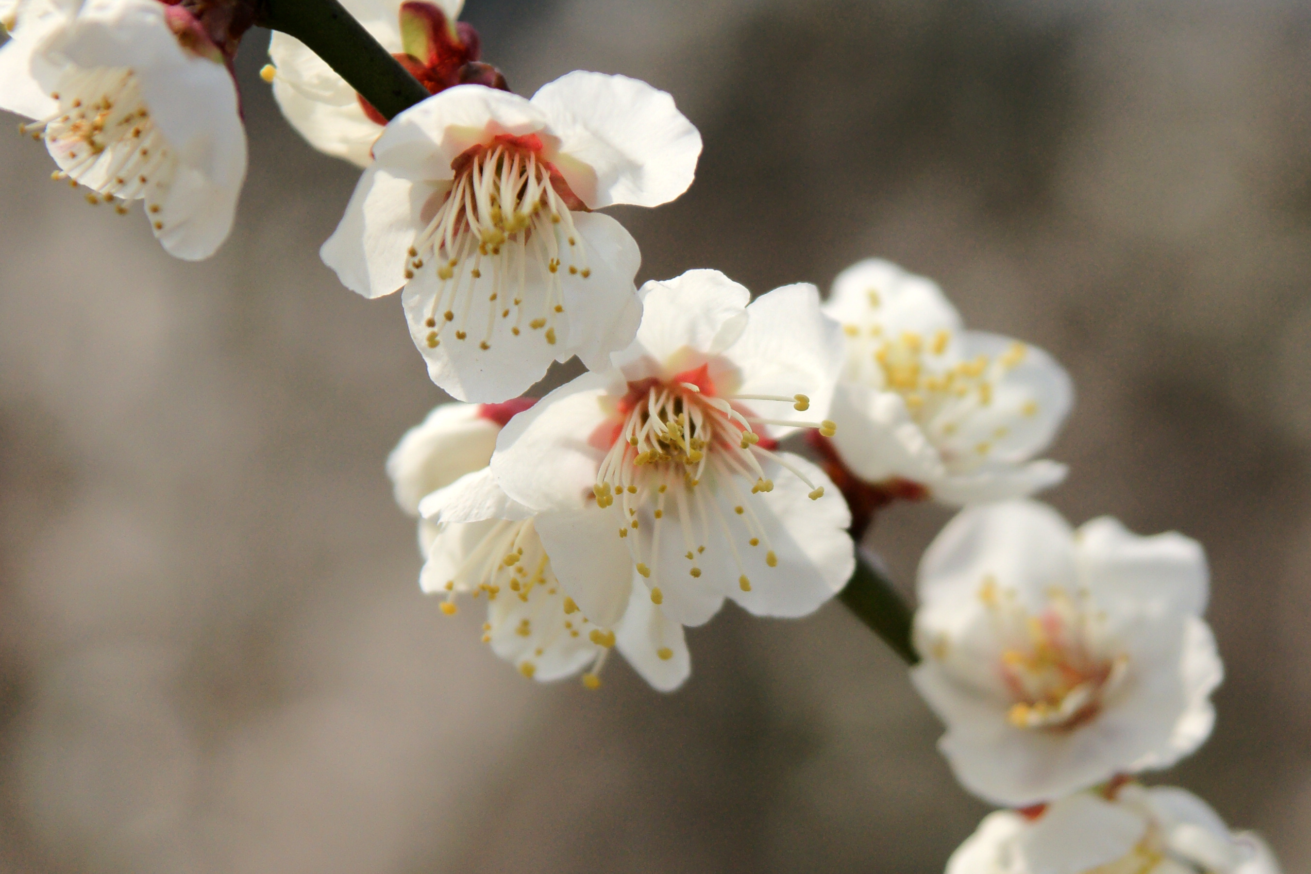 Minabe Bairin, Minabe, Wakayama prefecture, Japan